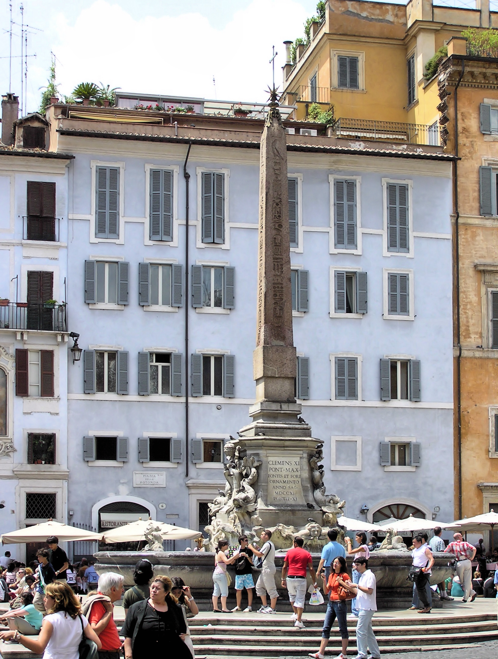 Egyptian obelisk in Piazza della Rotonda in Rome, Italy. The Pantheon is in the same square (piazza). The obelisk was originally erected in Heliopolis (Egypt) by Rameses II. It was moved to the Piazza from elsewhere in Rome by Pope Clement XI (Pope from 1700 to 1721).